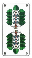 Saxonian deck - 9 of Leaves